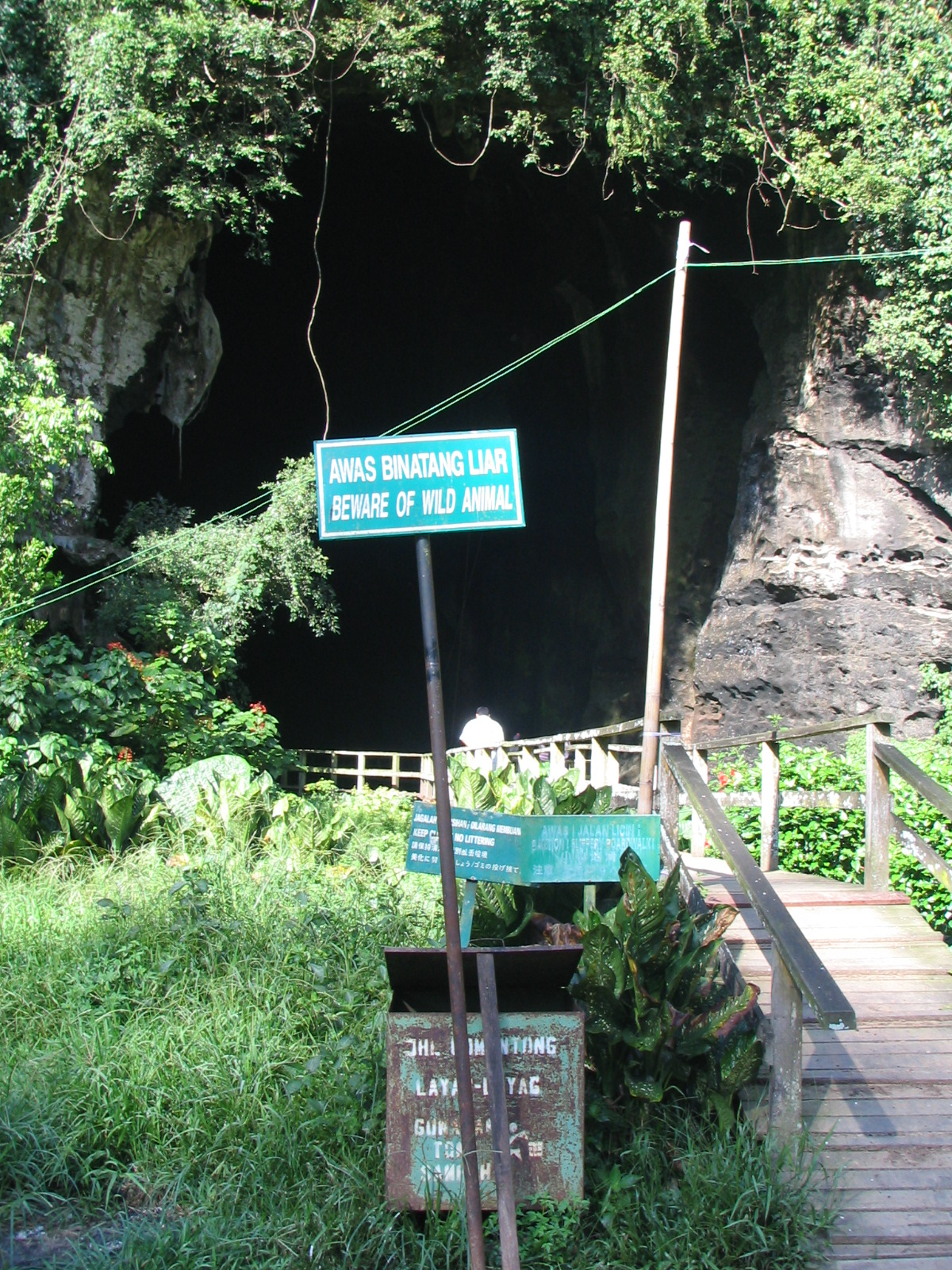 Stinky entrance to the cave..we saw hornbills catching small birds and mice at the entrance.